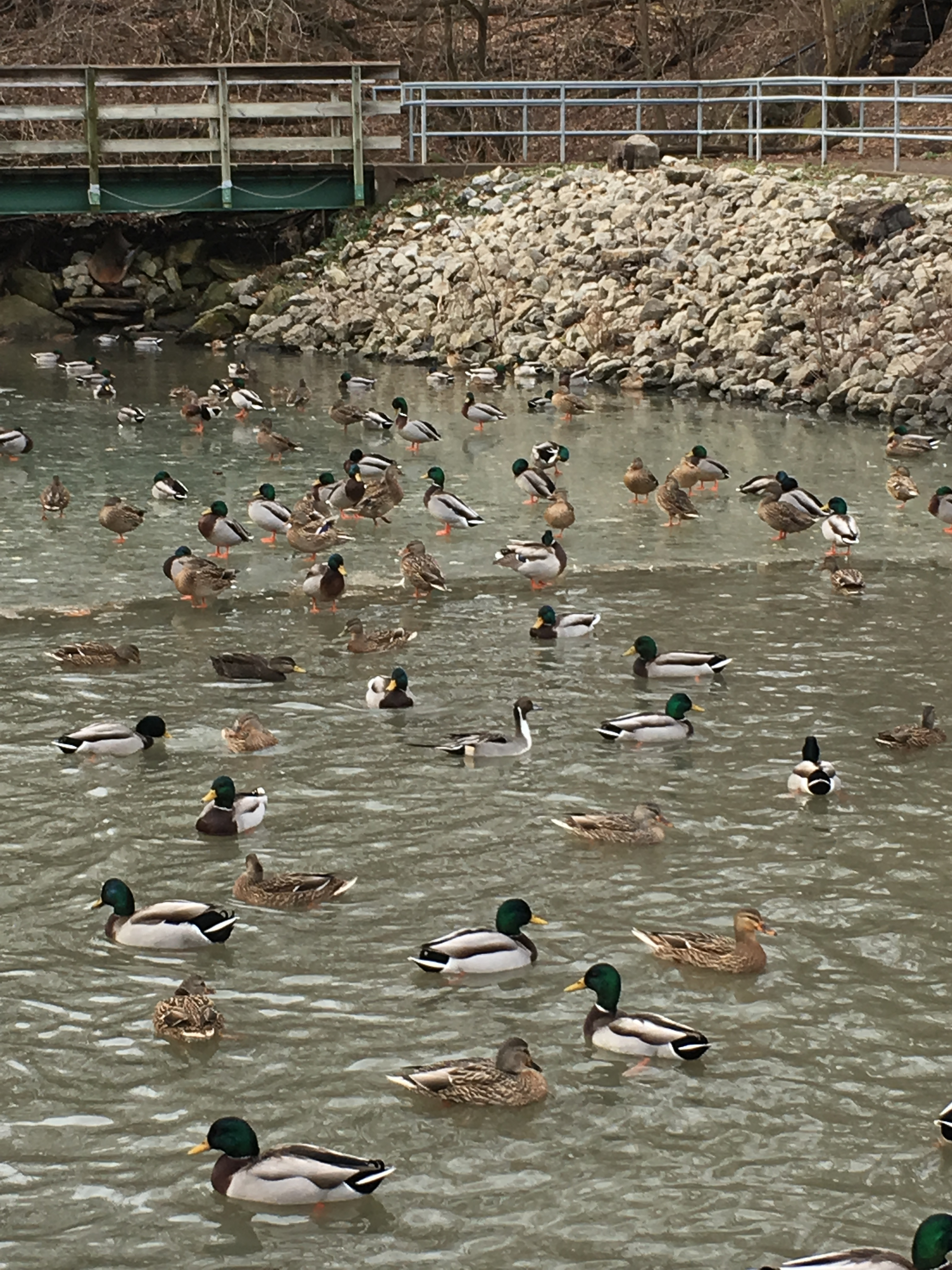 Located at the South Park Game Preserve, the duck pond has been a popular location for local families to look at ducks for generations. There has been a recent push by local groups to stop the feeding of these waterfowl as it is detrimental to their health. In this picture, a Northern Pintail is spotted visiting the typical Mallards of the pond.